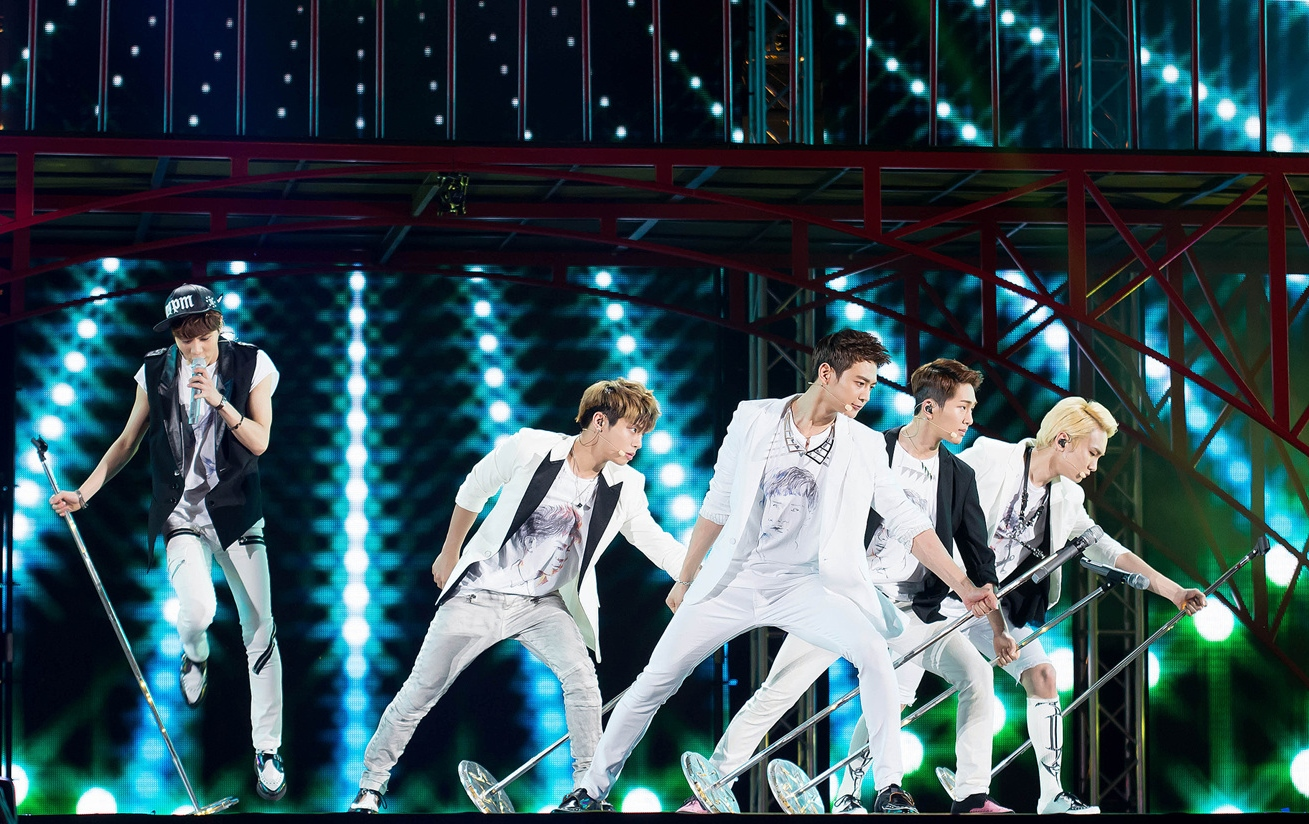 Shinee at the MBC Korean Music Wave in Bangkok on March 16, 2013.